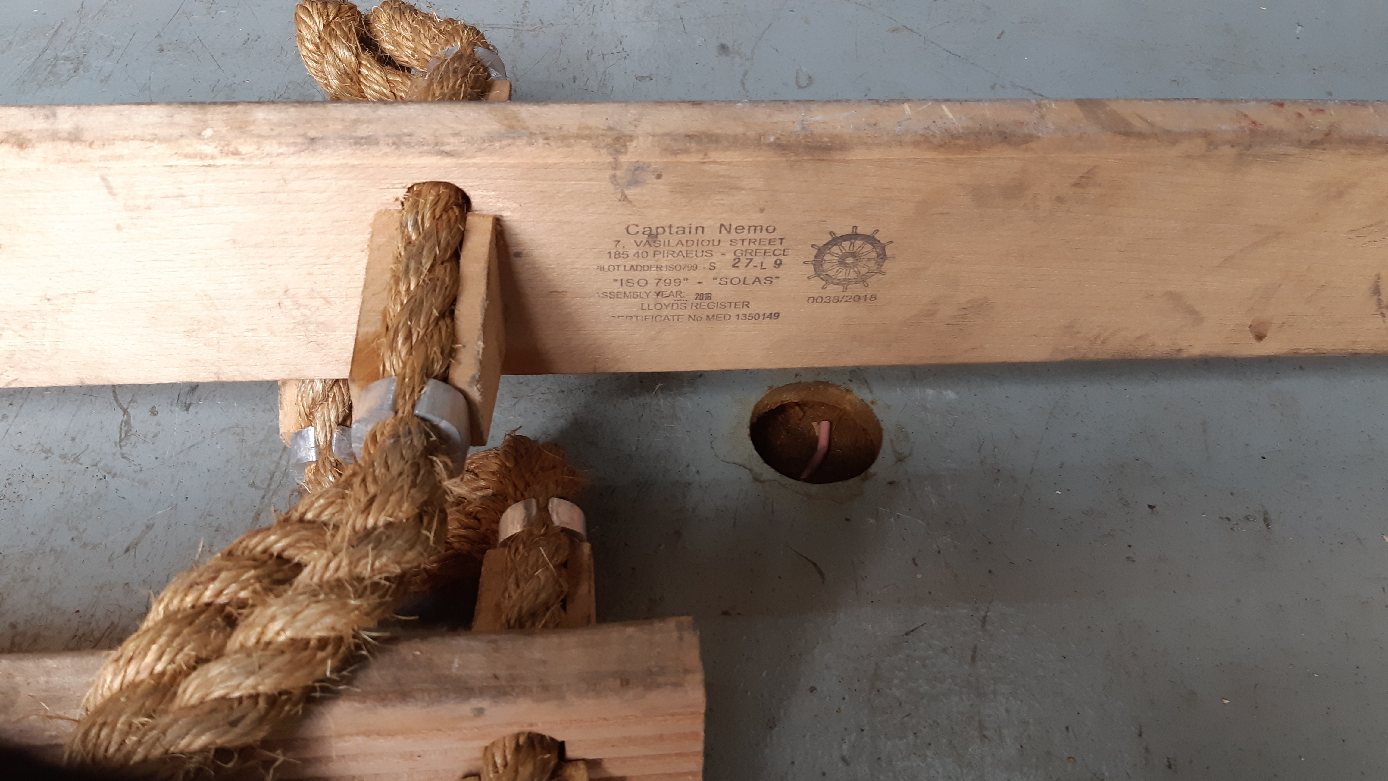 Pilot ladder complying with ISO and IMO standards